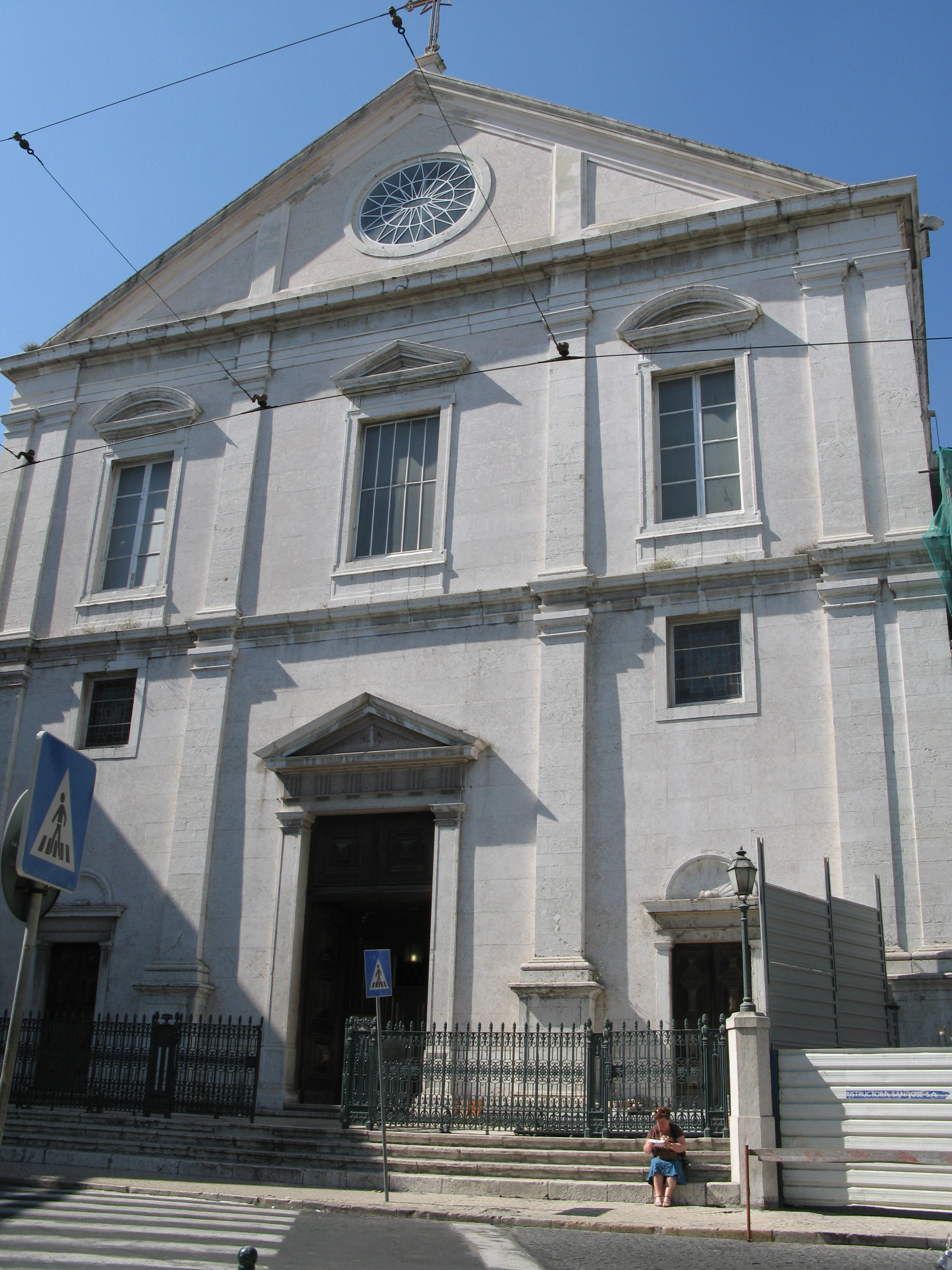 Facade of Igreja de São Roque/St. Roch Church, Lisbon. May 2008